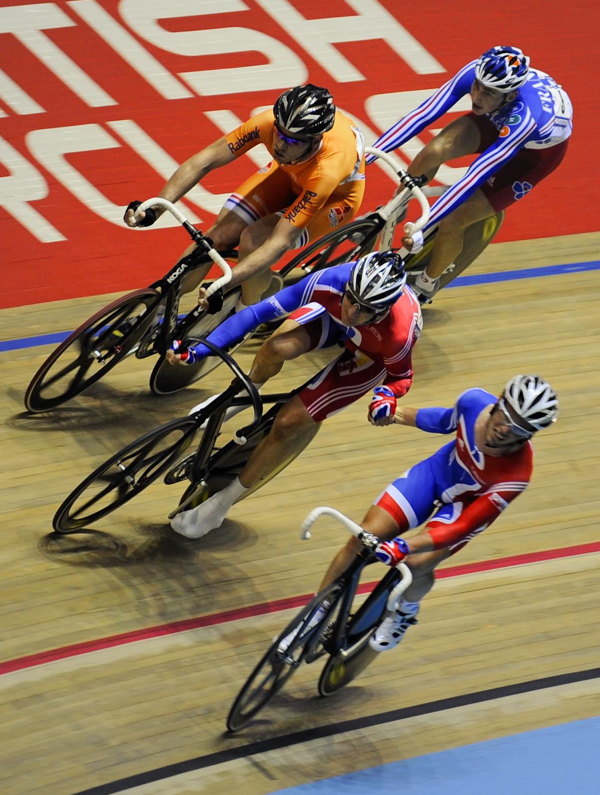 TrackChamps2008_0085